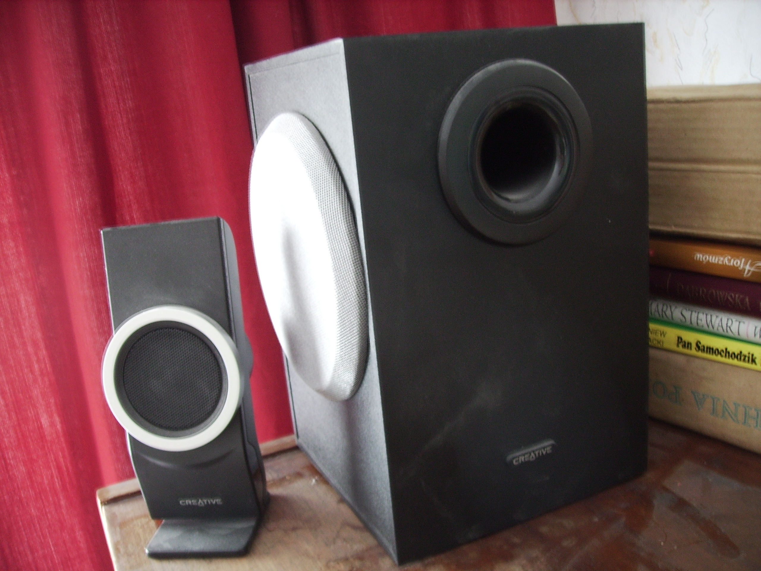 Loudspeakers